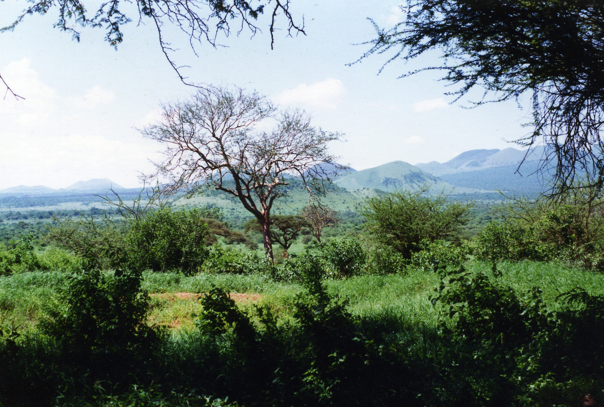 Tsavo-West-Mzima-Kenia